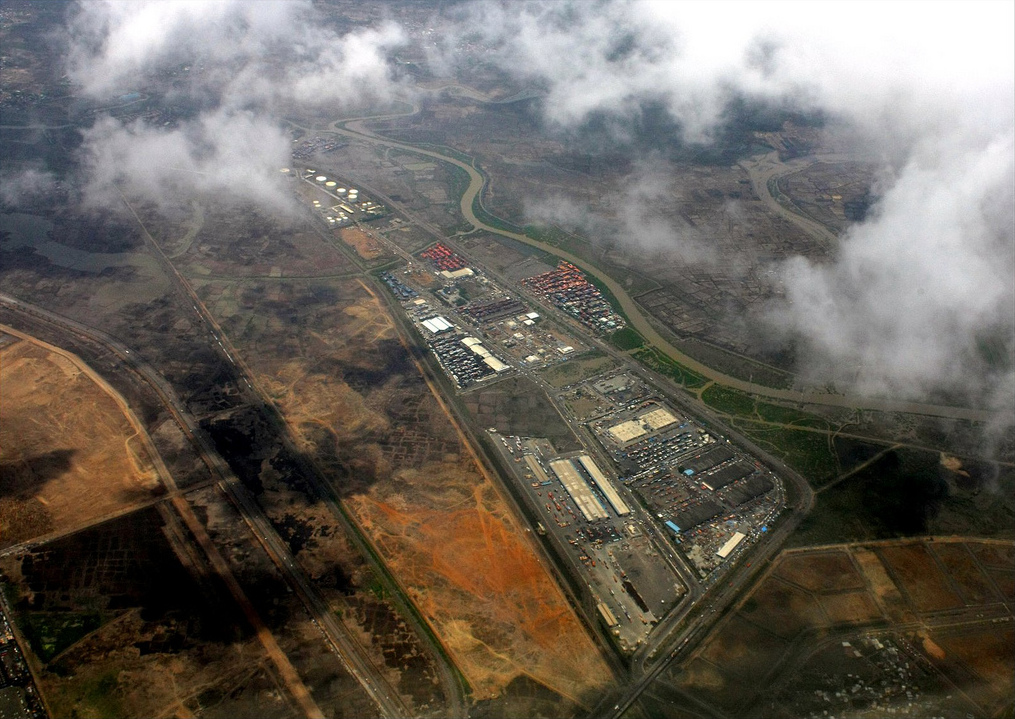 Industry near Mumbai, India